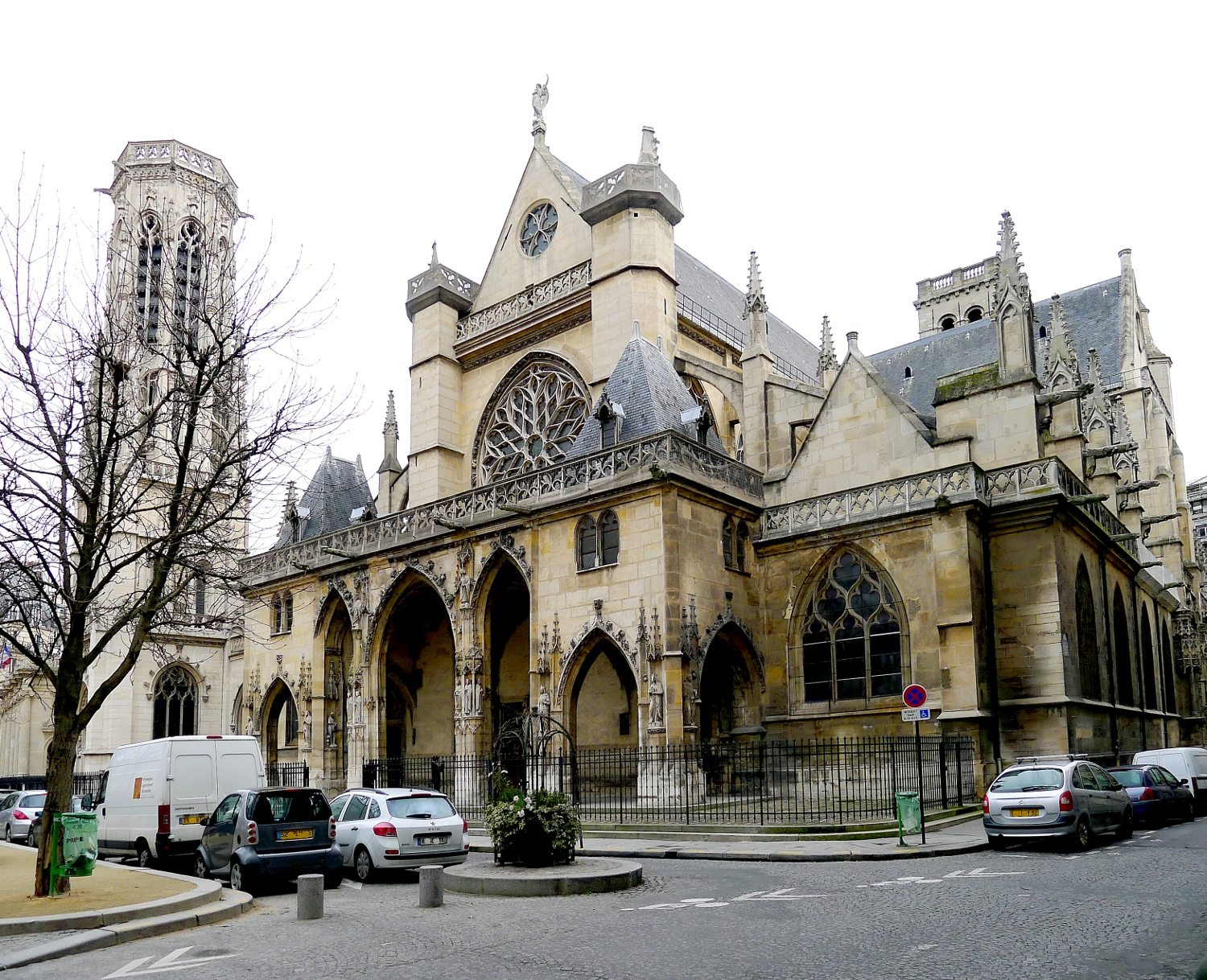 Saint-Germain l'Auxerrois church - Paris